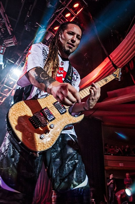 Zoltan Bathory of Five Finger Death Punch live at the Hollywood Palladium in Los Angeles, CA. August 28, 2012.